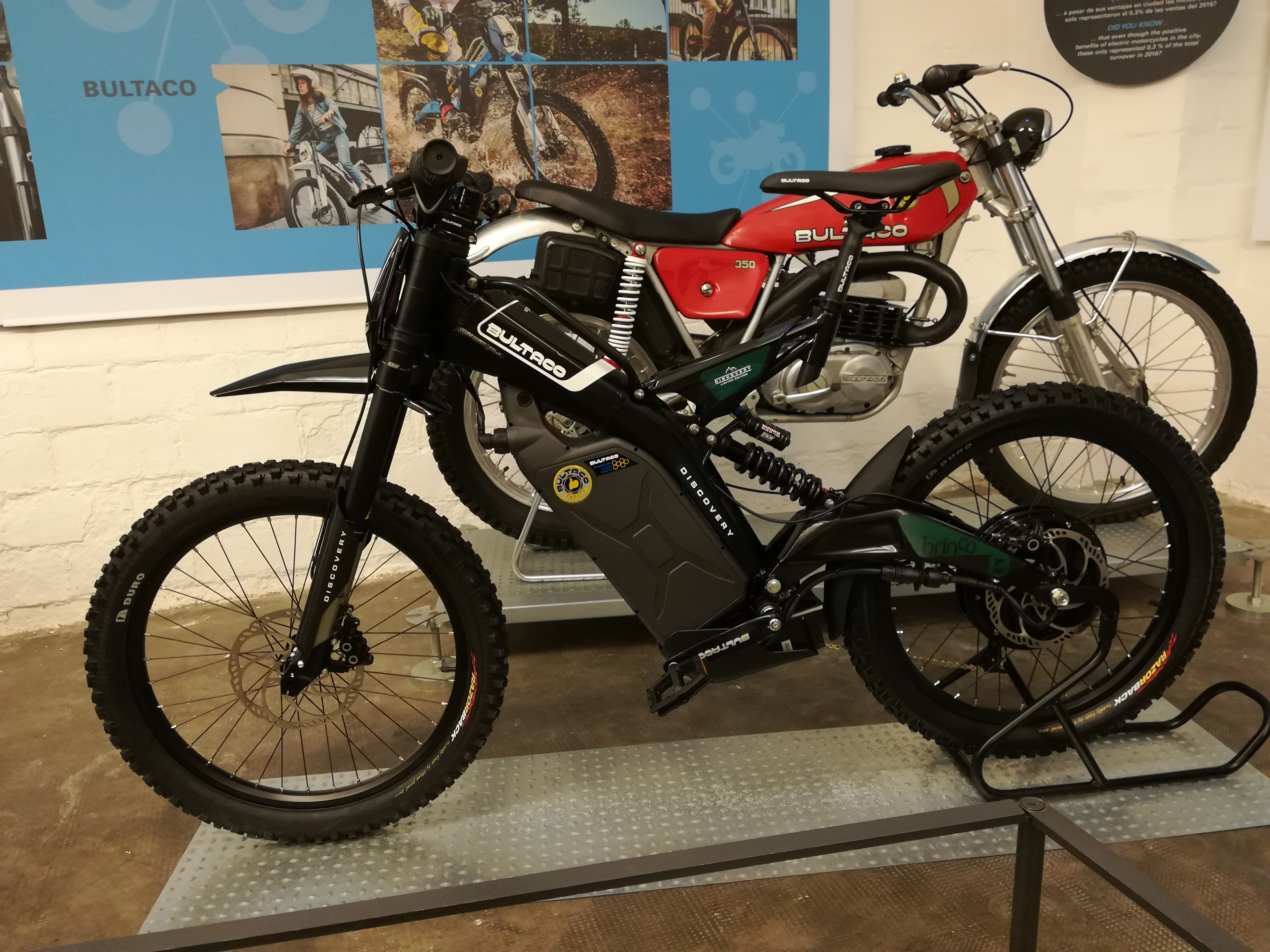 Bultaco Brinco R Discovery, Ltd. Edition, 2017